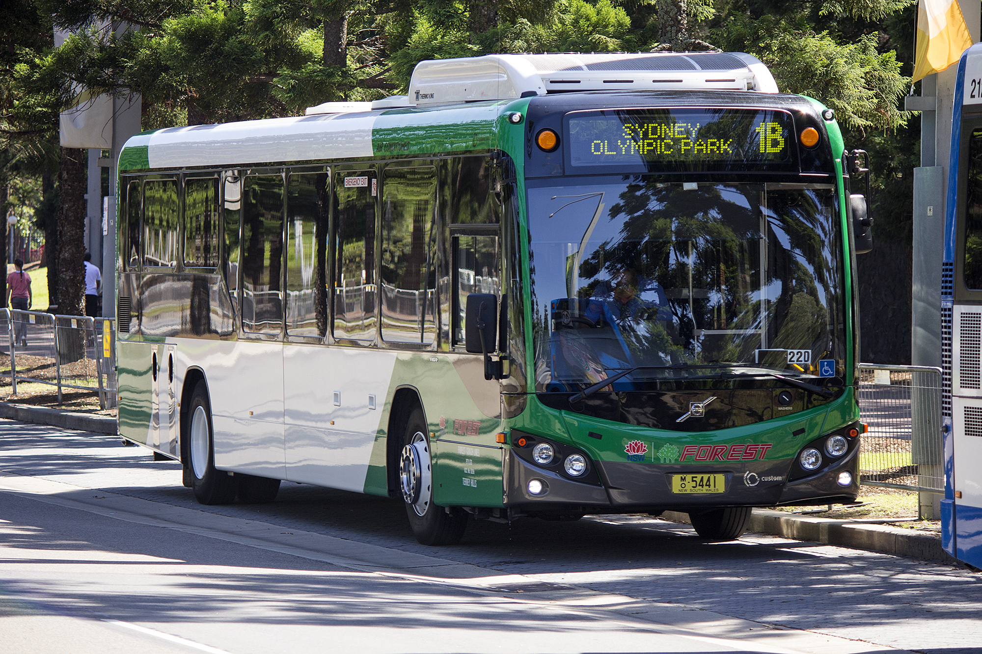 Forest Coach Lines (mo 5441) Custom Coaches 'CB80' bodied Volvo B7RLE on Olympic Boulevard at Sydney Olympic Park.